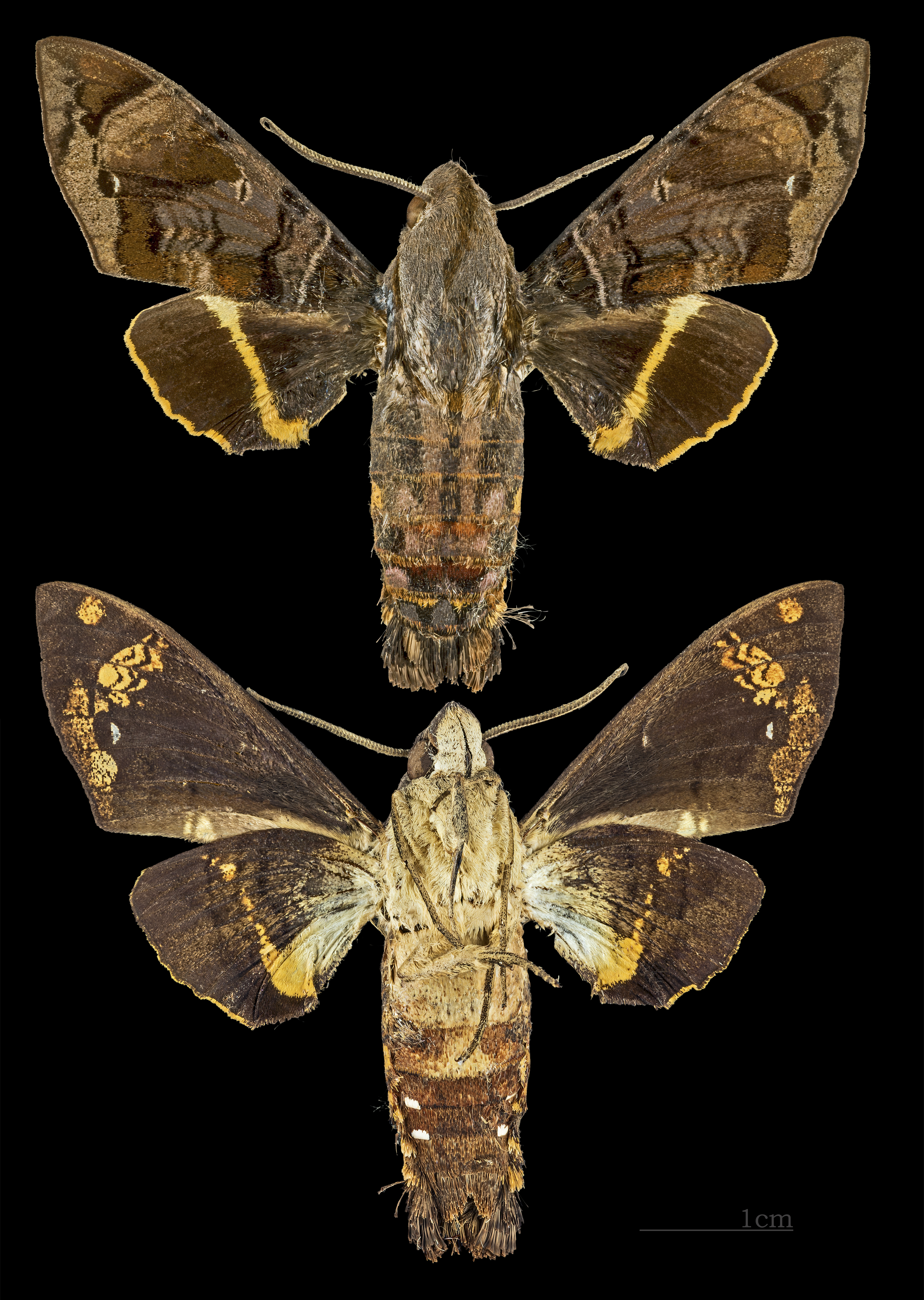 Cuban Sphinx - Two views of same specimen Collection of the Mathematician Laurent Schwartz